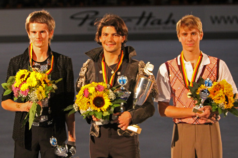 Stephane Lambiel, Ivan Tretiakov, Michal Březina at the 2009 Nebelhorn Trophy.